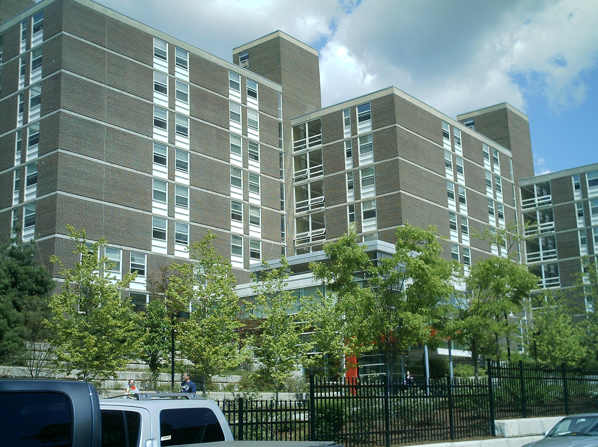 Russell Towers at Fitchburg State College